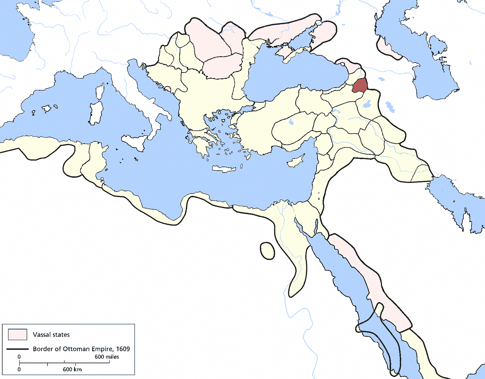 Kars Eyalet, Ottoman Empire (1609). Source: Encyclopedia of the Ottoman Empire at Google Books By Gábor Ágoston, Bruce Alan Masters